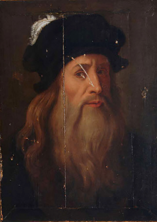 fig 1 portrait of hohenstatt analysis